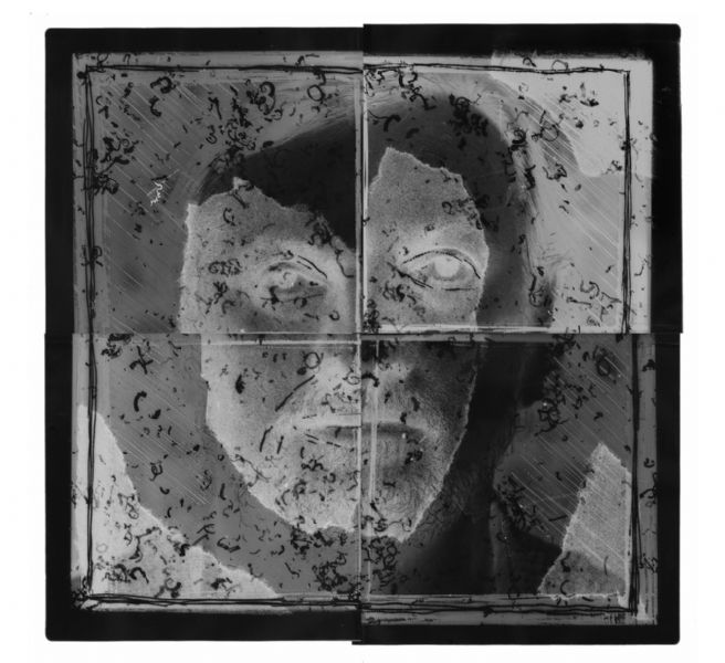 S/T II